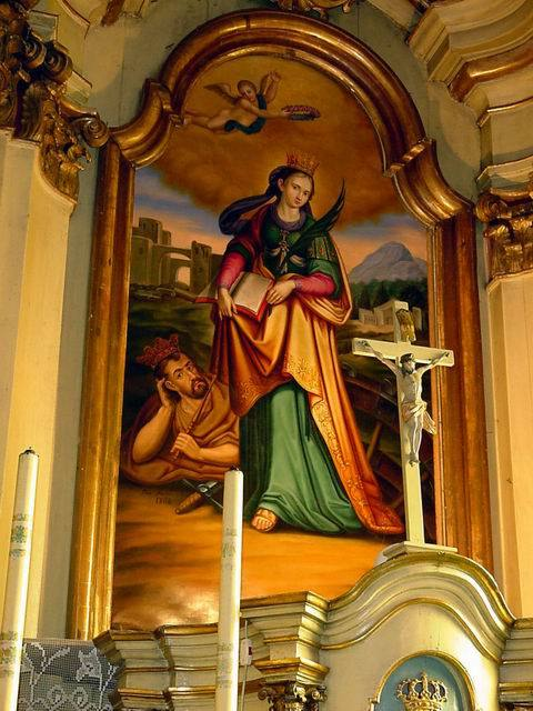 Saint Catherine of Alexandria